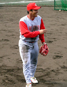 Takuya Kimura, infielder of the Hiroshima Toyo Carp, at Nichinan Tempuku Baseball Stadium.